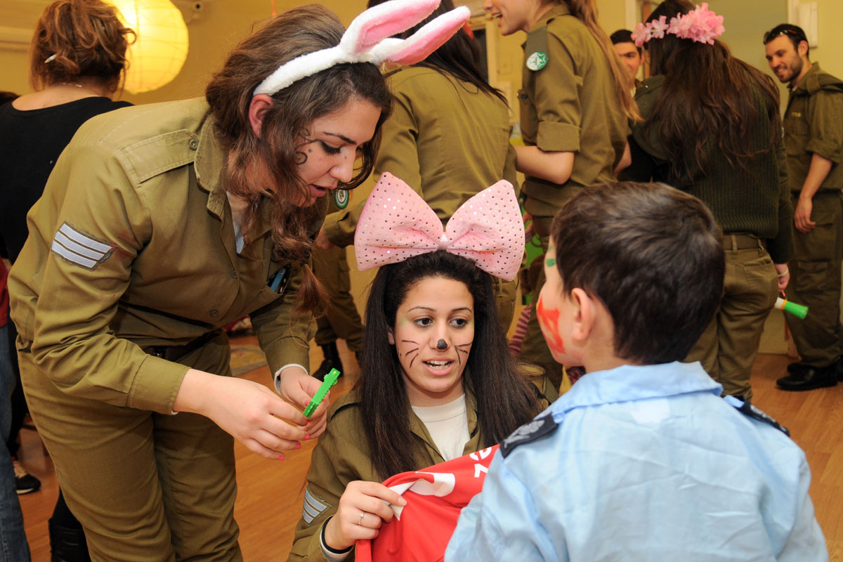 March 8, 2012 Soldiers from the Technological and Logistical Branch visited at-risk children in a day care at Or Yehuda, this last Purim. The soldiers helped the children design their Purin costumes with special clothes and make up and handed out gifts. The Israel Defense Forces Facebook The Israel Defense Forces blog Follow us on Twitter